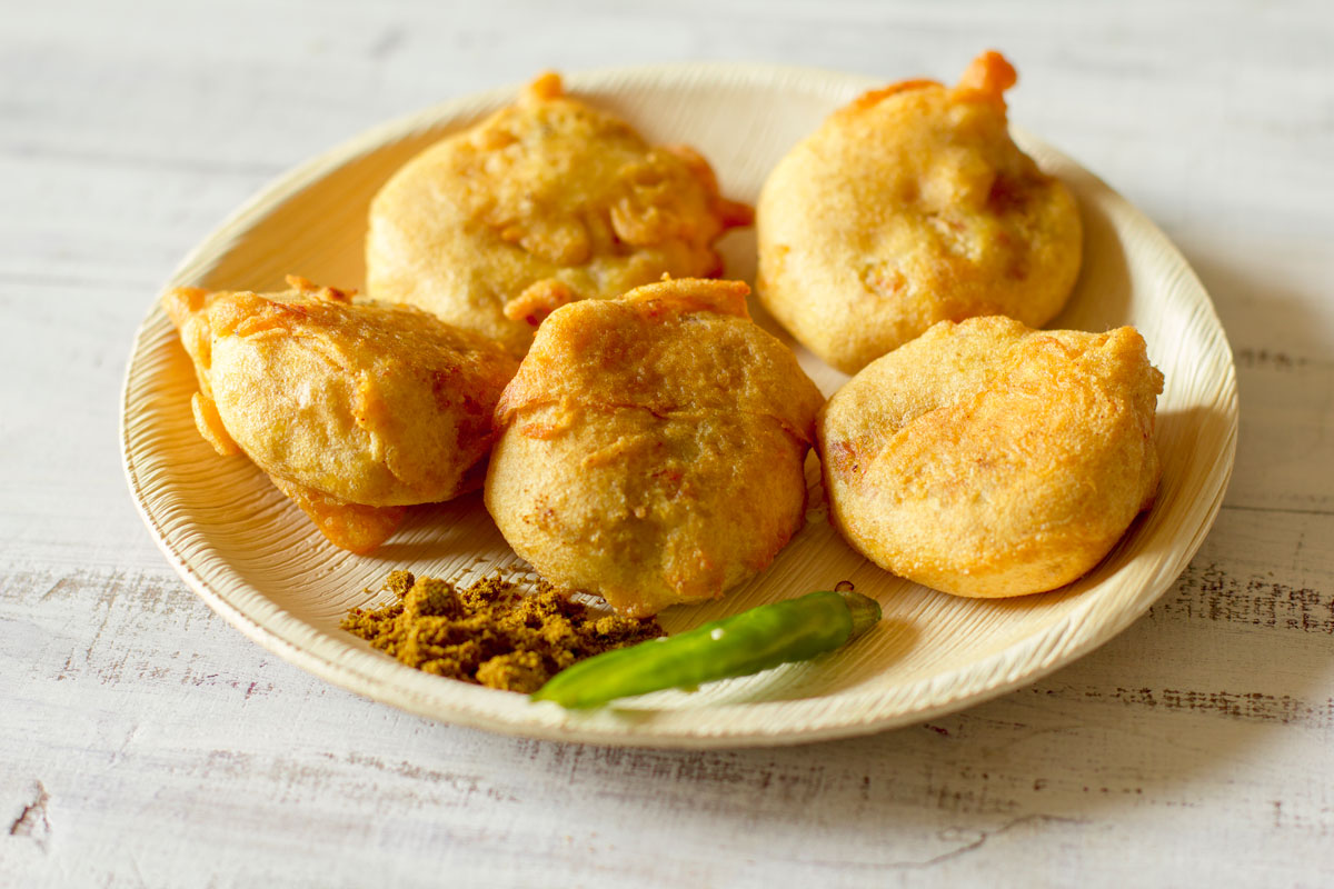 Mumbai Batata Vada recipe